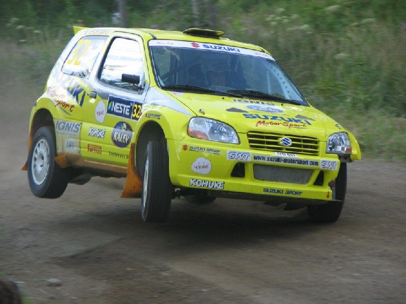 Urmo Aava driving his Suzuki Ignis S1600 at the 2004 Rally Finland.